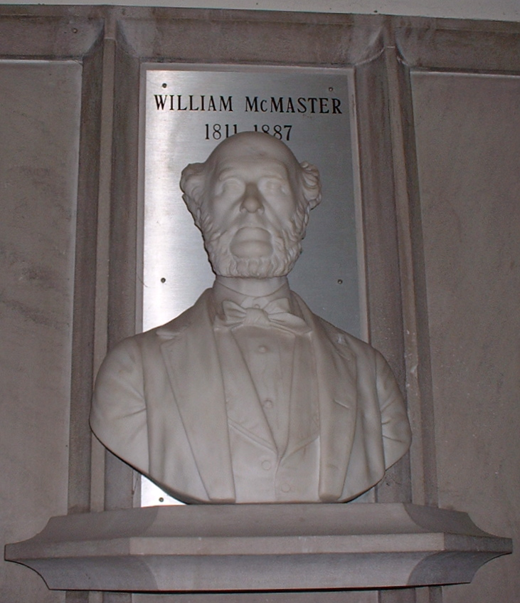 Bust of William McMaster, in entrance to University Hall, McMaster University